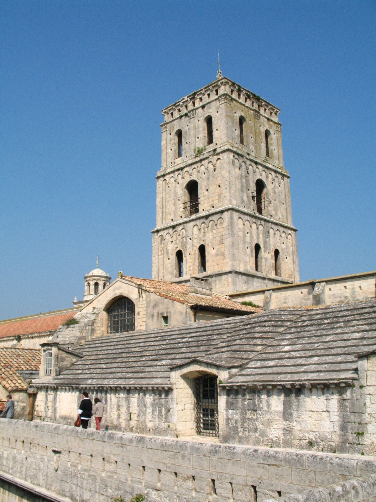 圣托菲姆教堂塔楼